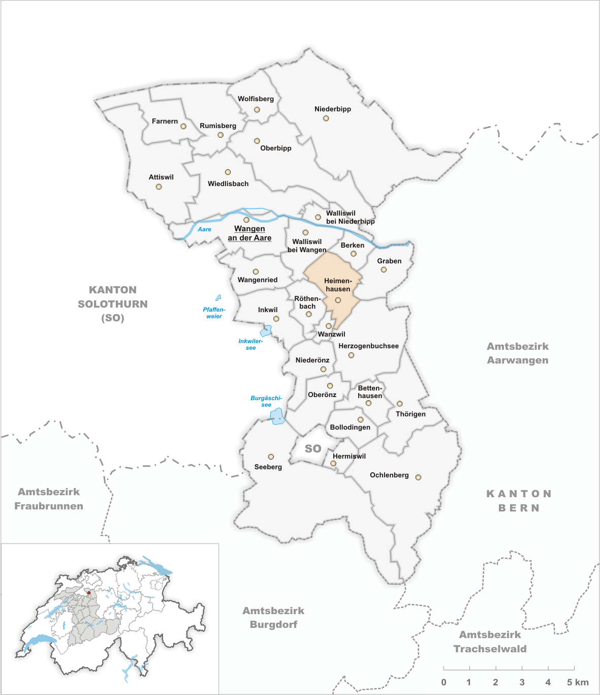 A map of the Heimenhausen municipality, in the district of Wangen, in the canton of Bern, in Switzerland.